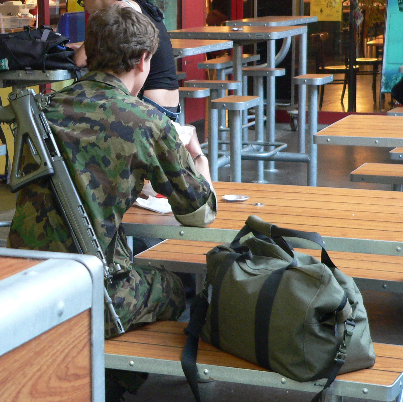 In a railway station, a young Swiss militia soldier returning to duty after a week-end break